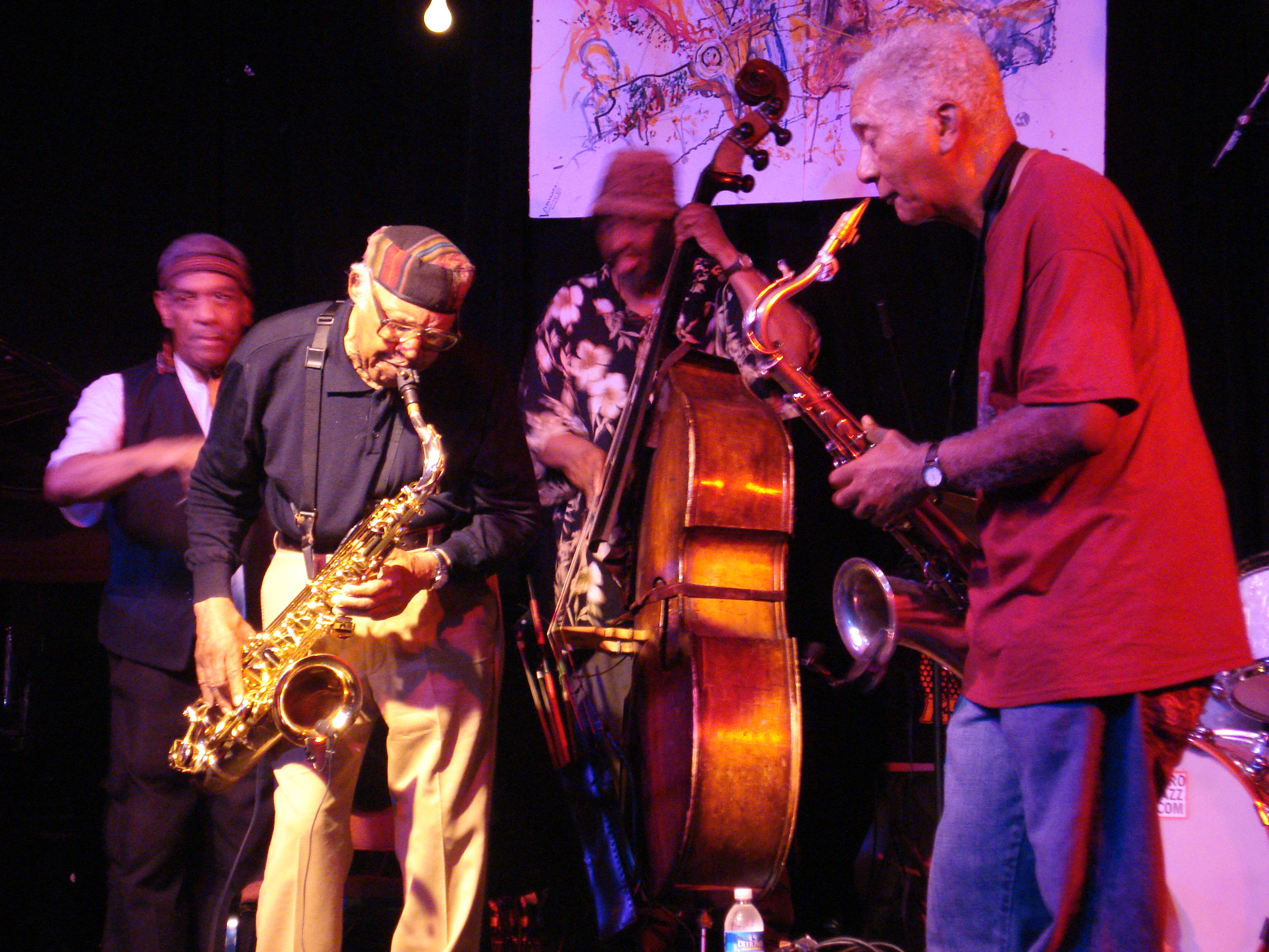 Photograph of last set of second day of the 13th Vision Festival. From left to right: Billy Bang, Fred Anderson, William Parker and Kidd Jordan.